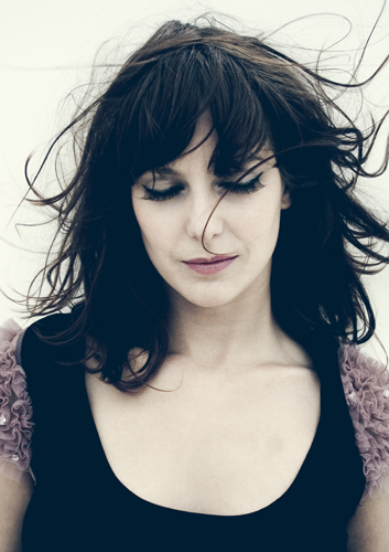 A portrait picture of the actress, Elodie Navarre.